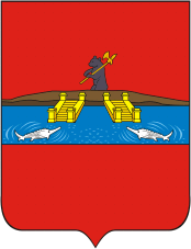 Rybinsk (Yaroslavl oblast), coat of arms (1778)